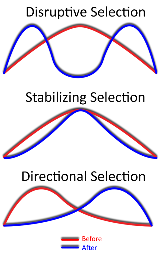 A chart showing three types of selection.